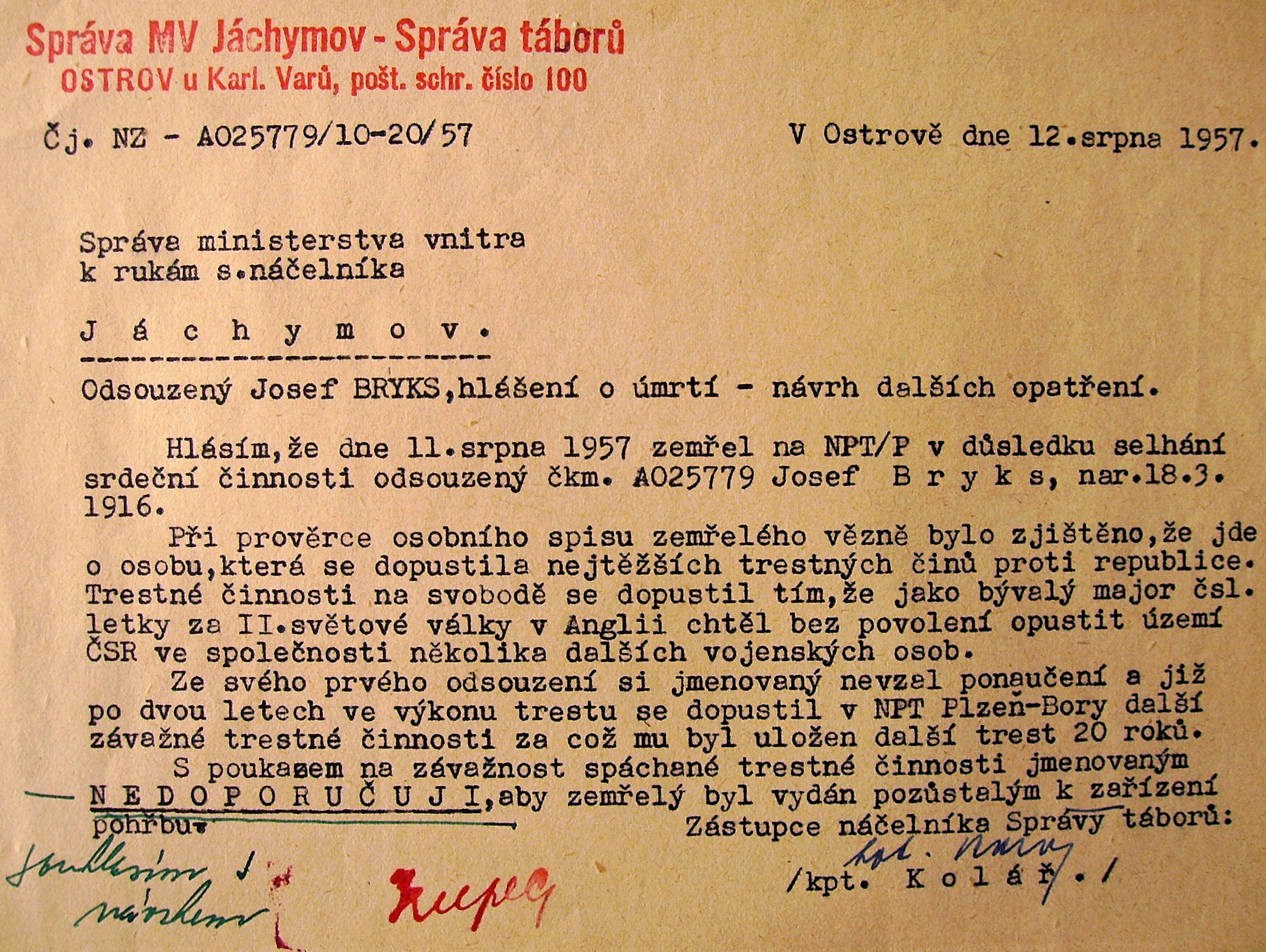 A note about a death of Josef Bryks.